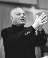 Herman Berlinski © 2010 Milken Family Foundation